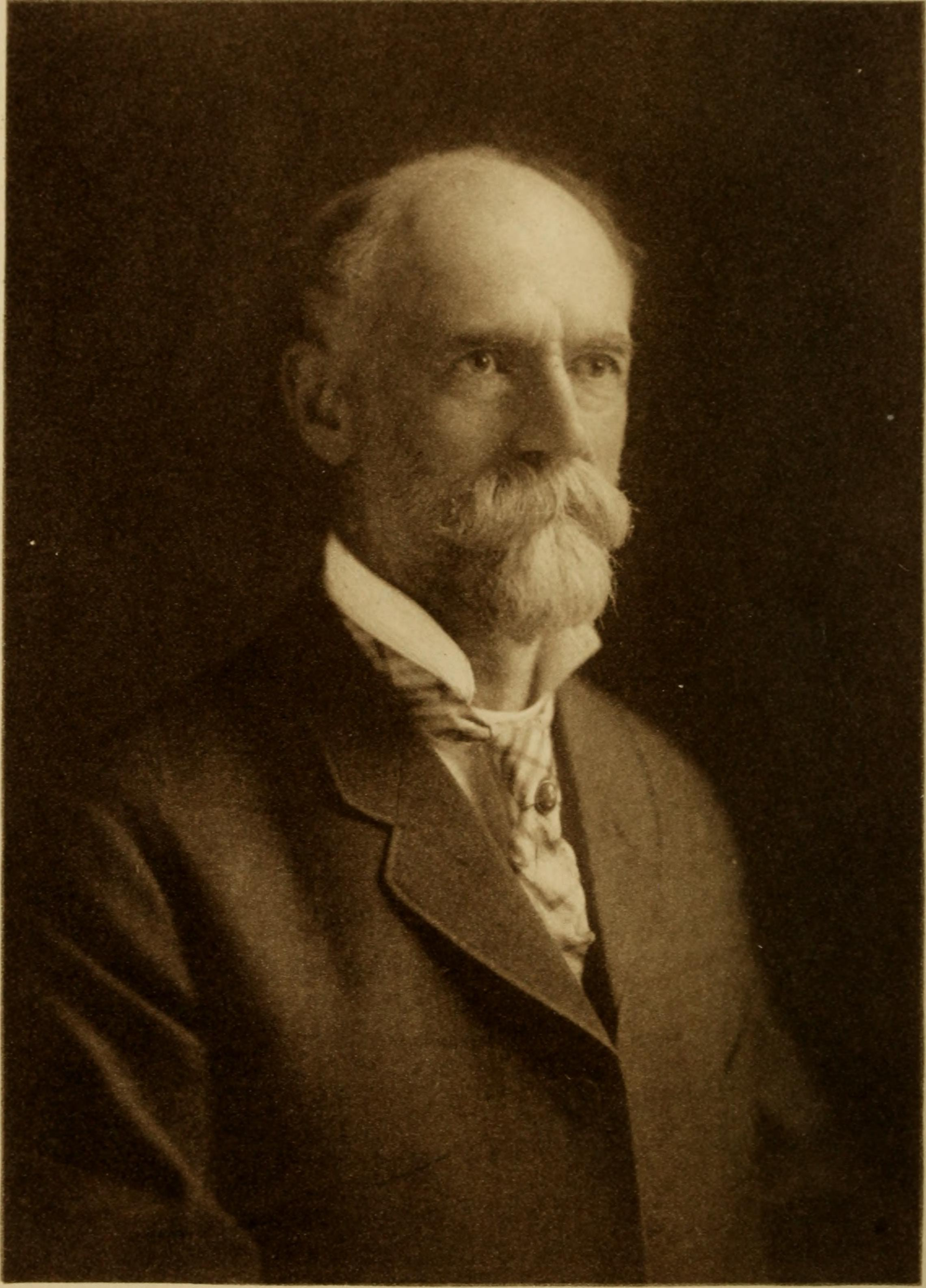 Title: The Ransome book; how to make and how to use concrete Year: 1917 (1910s) Authors: Campbell, Henry Colin, 1868- Ransome Concrete Machinery Company Subjects: Concrete Publisher: New York city, Ransome Concrete Machinery Co Text Appearing Before Image: Class_XA-iliL C-b Book Gipiglit N? COraRIGHT DEPOSIT. 1 Text Appearing After Image: Ernest L. Ransome FOUNDER plllllllllllllllllllllllllllllllllllllllillllli I The Ran^ome Book I HOW TO MAKE AND I HOW TO USE I CONCRETE ^/^X Written and Compiled by h!COLIN CAMPBELL, C.E., E.M. Director, Editorial Bureau,Portland Cement Association PRICE ONE DOLLAR m Well-Mixed Concrete for Perviancnce/ m I Ransome: Concrete Machinery Co. 1 M The Pioneer Builders of Concrete Machinery g I \\r, BROADWAY NEW YORK CITY £ M FA (TO it IKS ^ ^ I)1..\KI.M;.\, N..I. l(K.\l)lN(i. r\. t»s;;K.»-;H, WIS. llllllllllllllllllllllllllllllllllllllllllillllll^^^ I A4S9 C5 Copyrighted, 1917, byRansome Concrete Machinery Co. //^ f=^ e)ci.A48iir)0DEC 28 1917 Form V ^ INTRODUCTION V- r In issuing this booklet the Ransome ConcreteMachinery Company is making a departure fromusual practice that it is hoped will be popular. TheRansome line of machinery and concreting equip-ment has been subordinated to those fundamentalpractices which govern success in the use of concrete.The thought is this: However good th